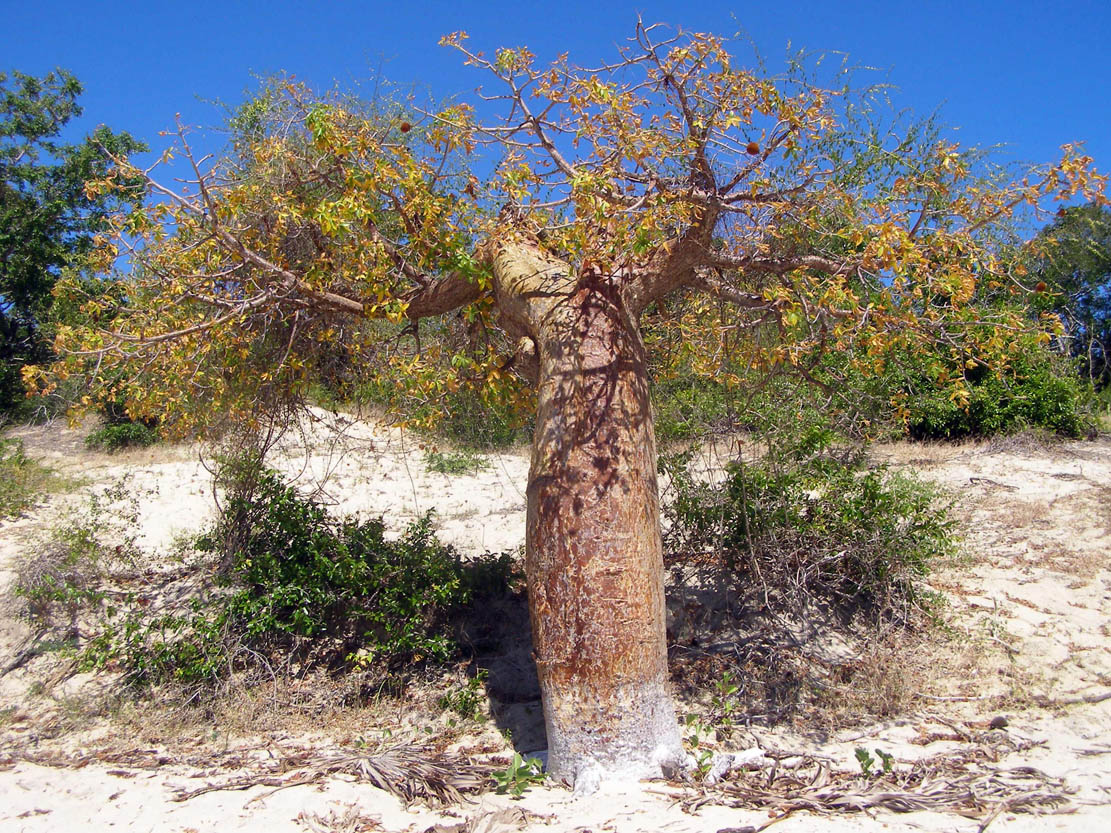 Adansonia rubrostipa, Anjajavy Forest, western Madagascar.